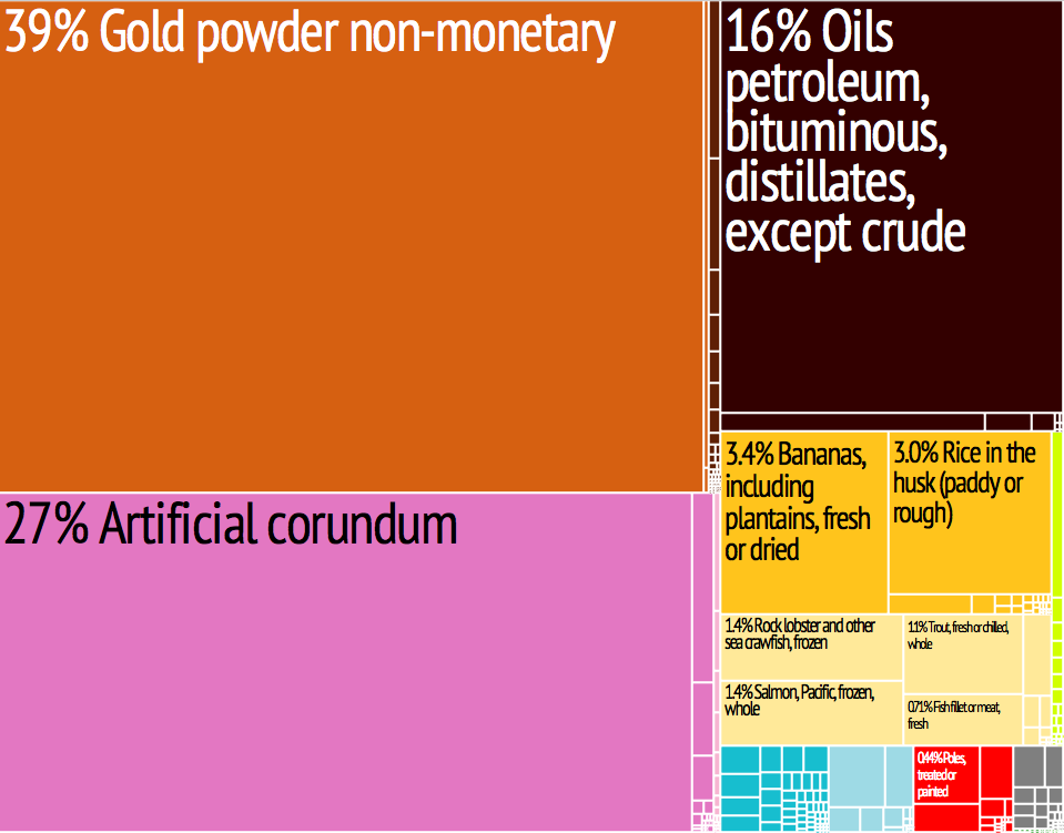 Suriname Export Treemap from MIT Harvard Economic Complexity Observatory